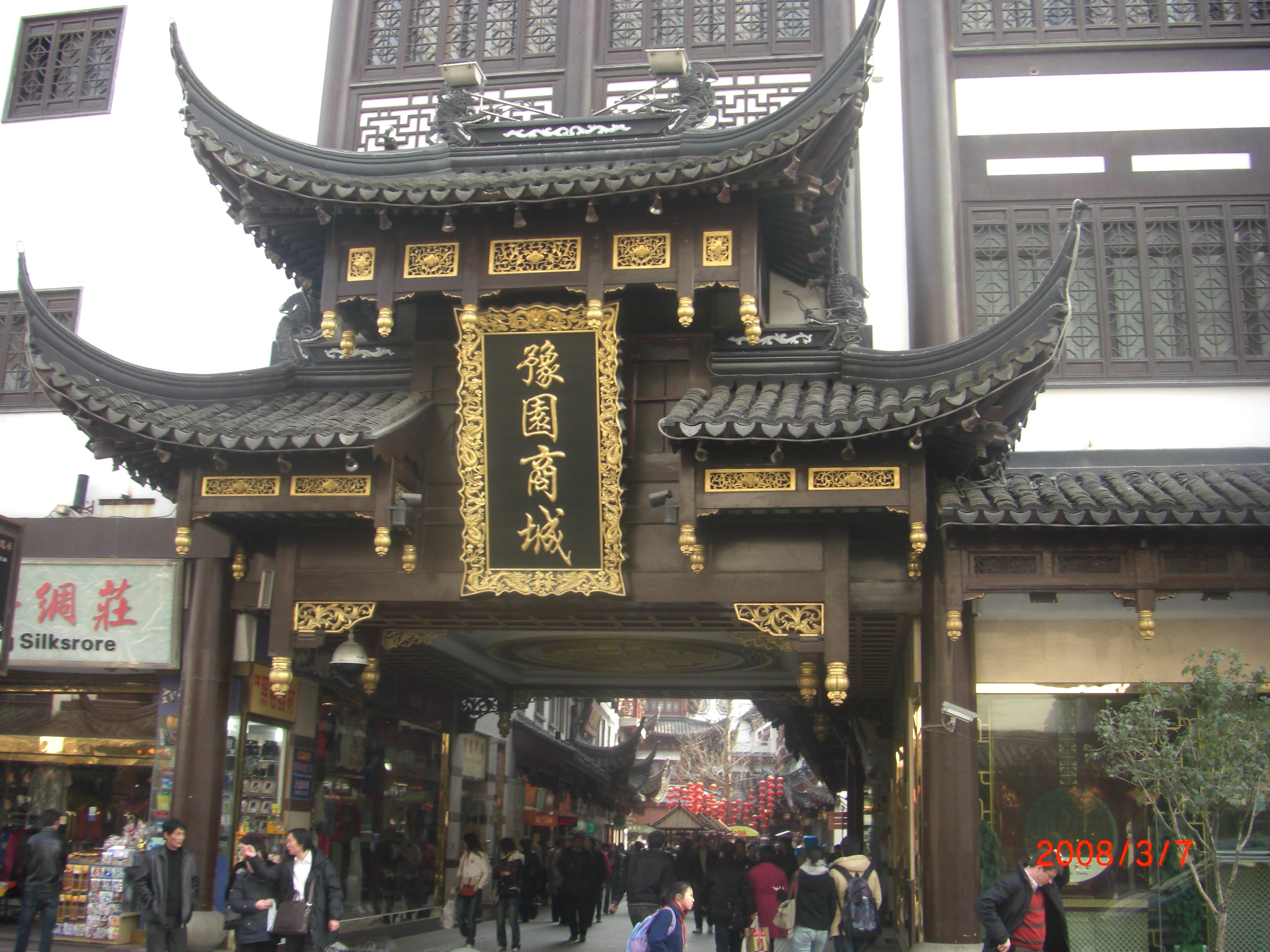 Yuyuan Tourist Mart outside